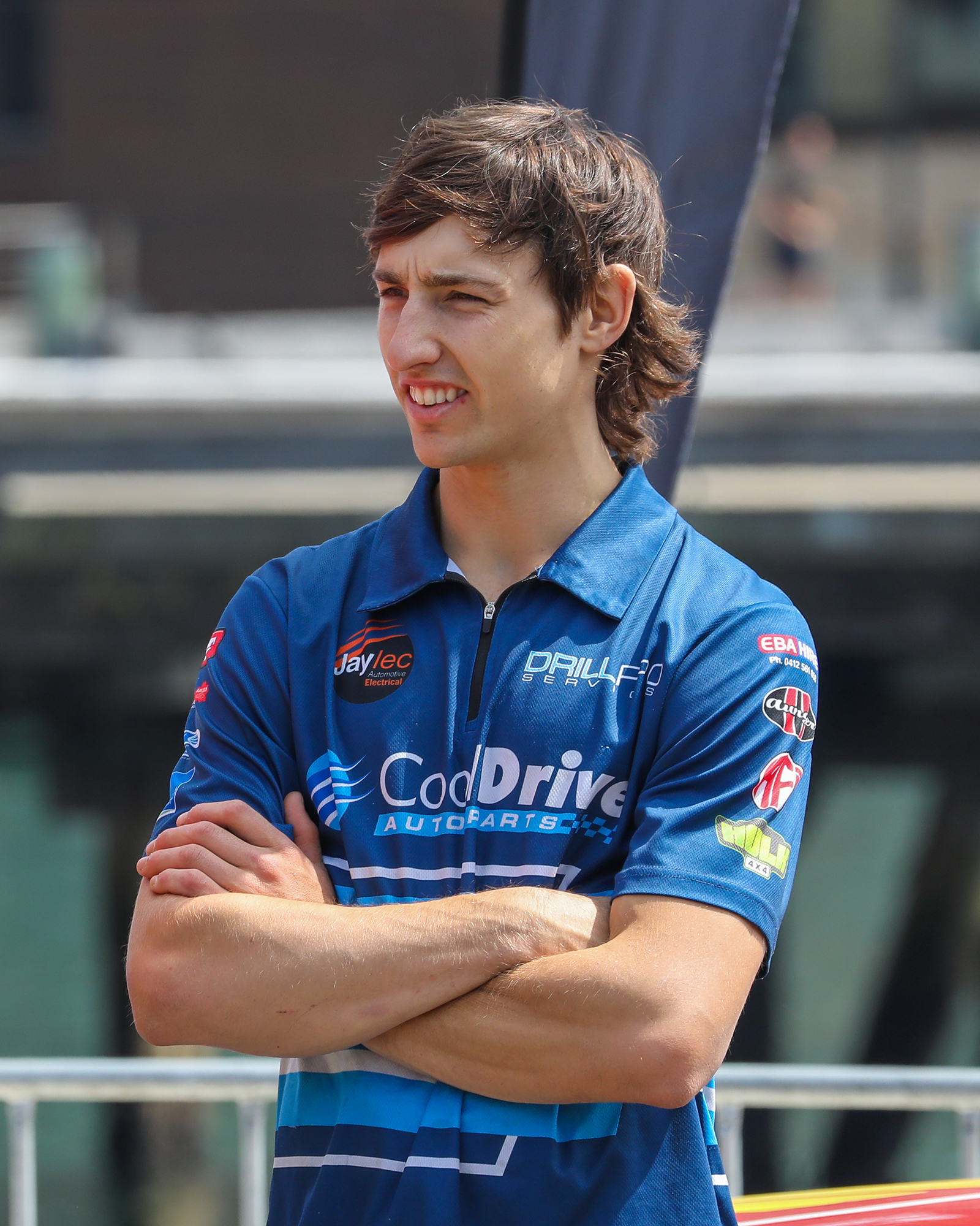 Macauley Jones at the 2020 Supercars season launch